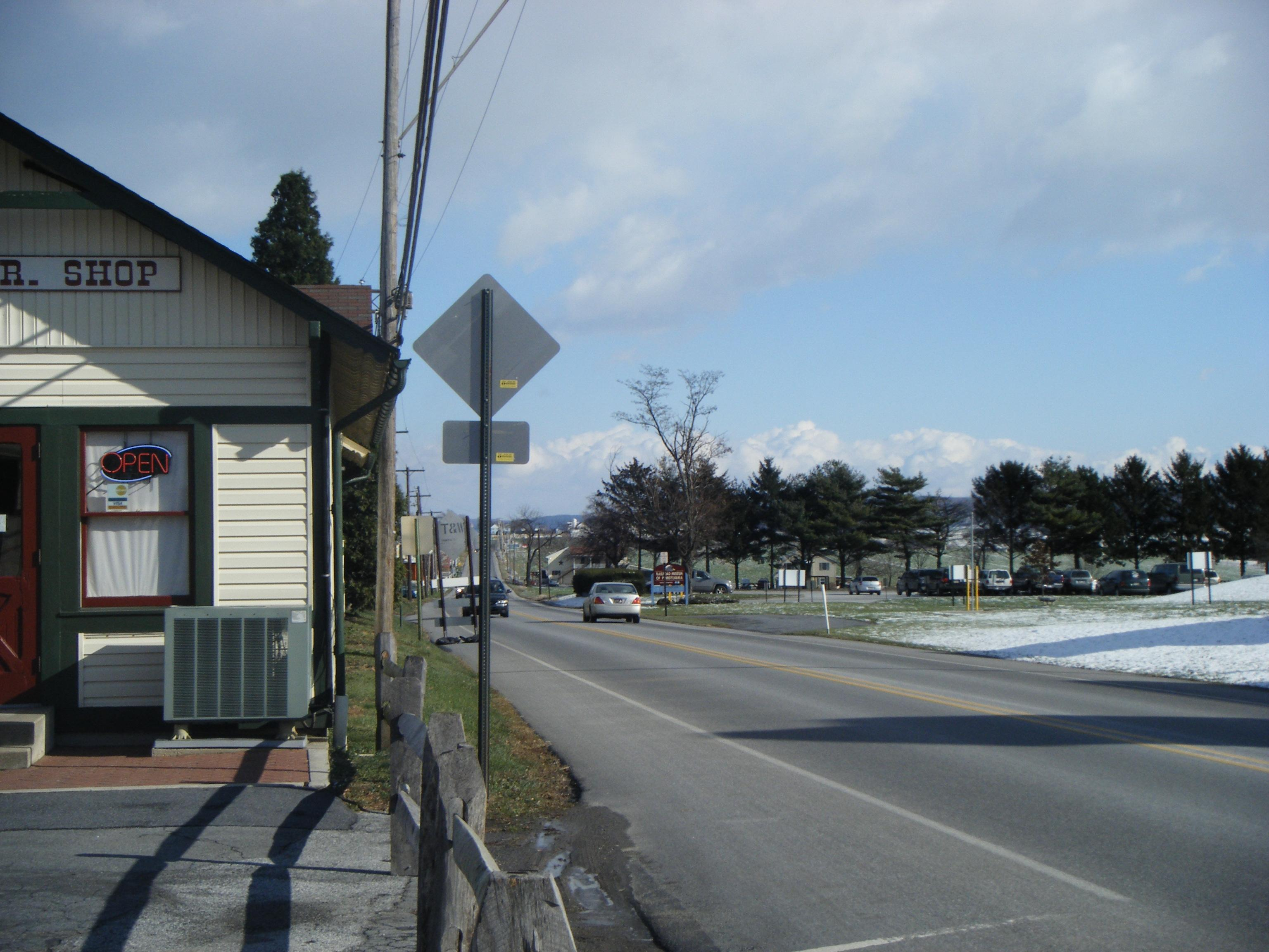 Eastbound Pennsylvania Route 741 at the entrance to the Railroad Museum of Pennsylvania in Strasburg, Pennsylvania.